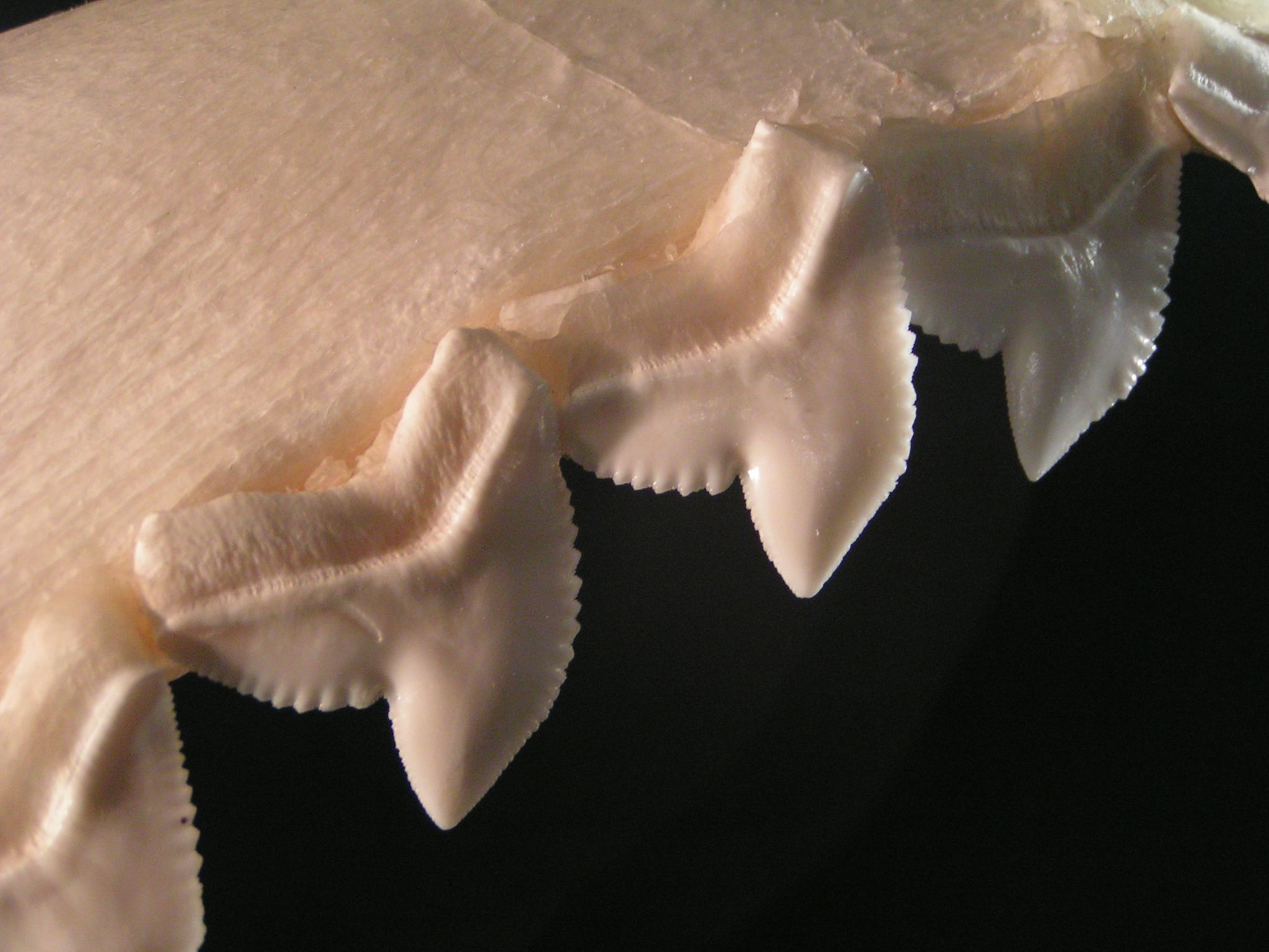 closeup of the teeth of the tiger shark, showing the serrated edges.